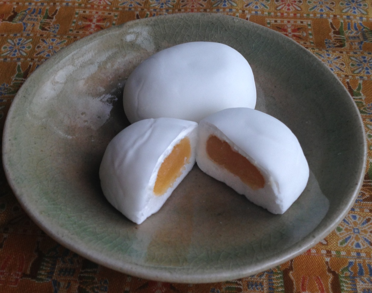 Japanese "Tsurunoko" (Crane Eggs) sweets made by Ishimorimanseido in Fukuoka